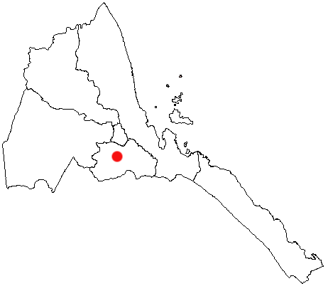 Mendefera (Adi Ugri), Eritrea Location Map; created with the GIMP. Made by Acntx.